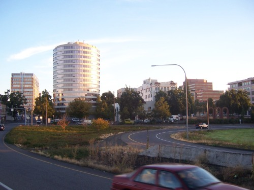 Vancouver, Washington - Vancouver City Center Skyline (photo taken by me)